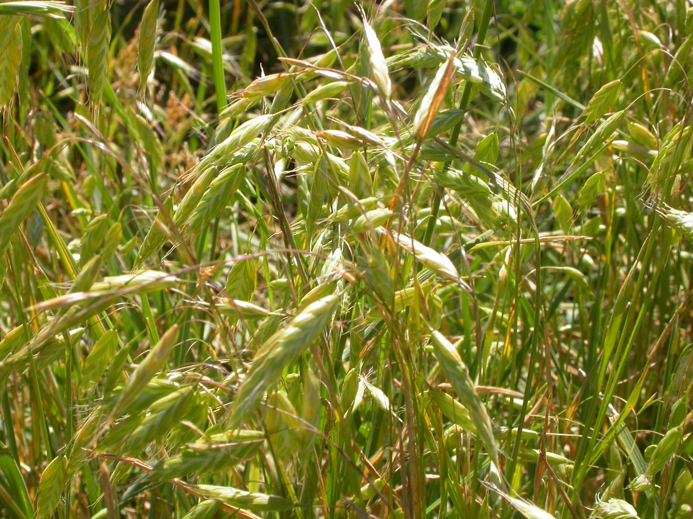 This annual brome is apparently much more common in Montana than is cheatgrass (Bromus tectorum).